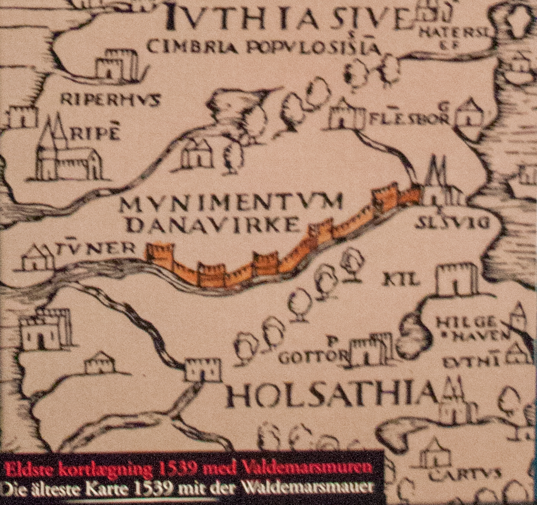 Map with the Danevirke from 1539label QS:Len,"Map with the Danevirke from 1539"label QS:Lhu,"Térkép a Danevirke ábrázolásával 1539-ből"